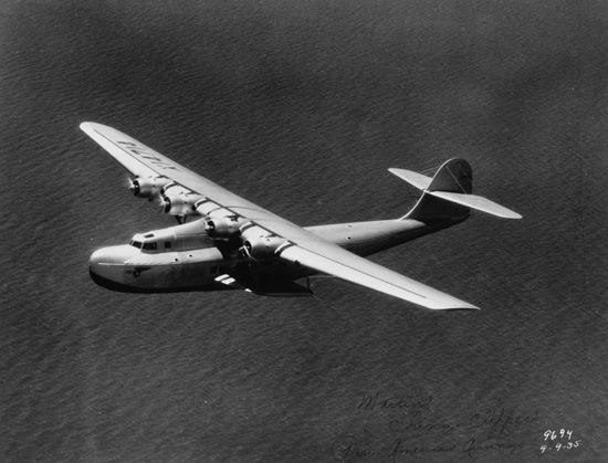 Catalog #: 00068826 Manufacturer: Martin Designation: 130 Official Nickname: Clipper Notes: Repository: San Diego Air and Space Museum Archive